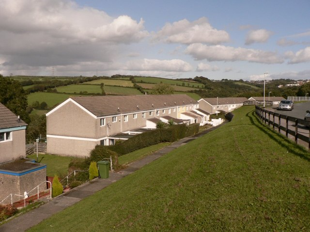 Waring Road Southway Plymouth This photograph is of the lower section of Waring Road taken from the 'tier' above. Southway is one of the council estates extending Plymouth's boundaries out toward Dartmoor.